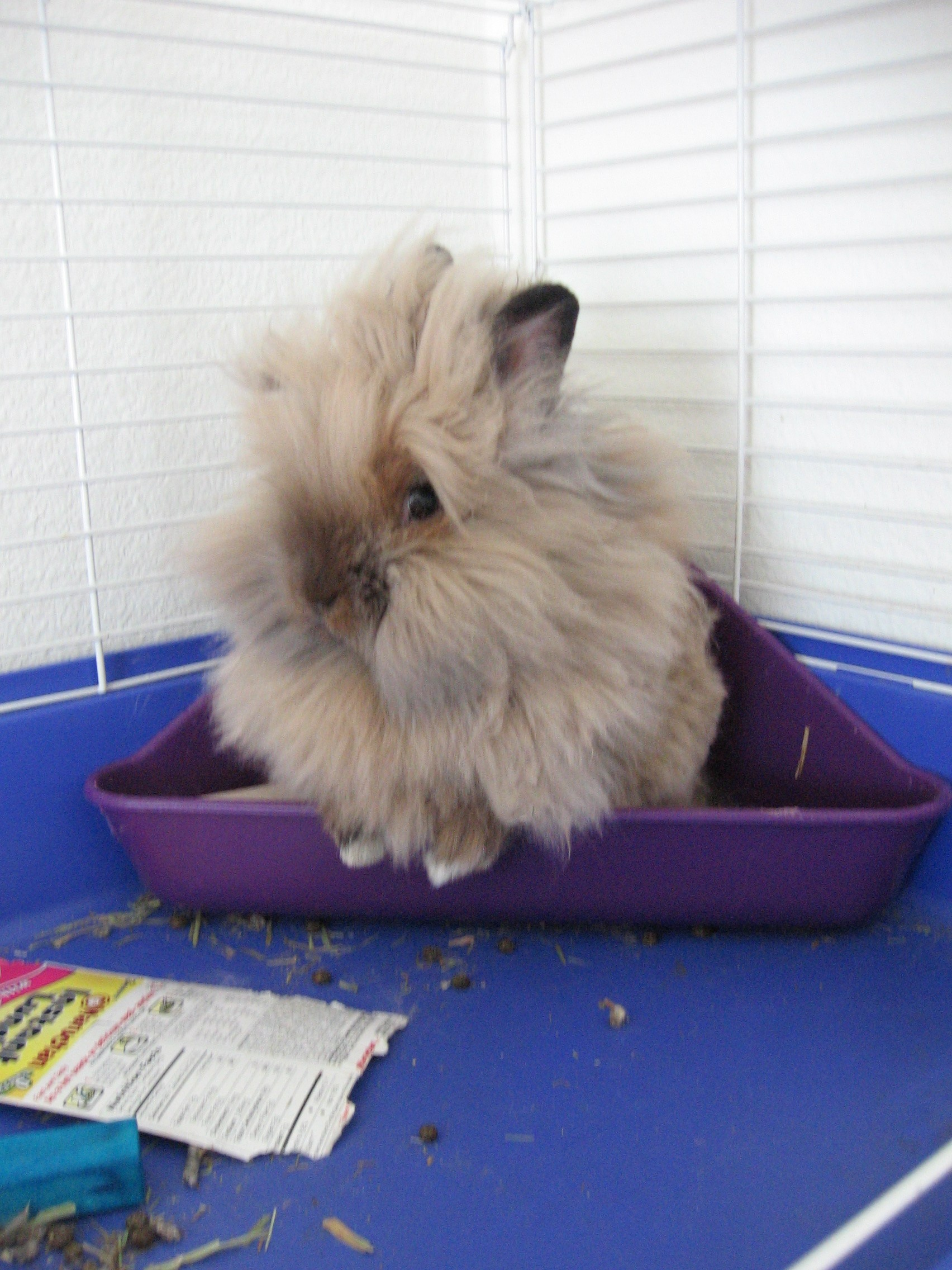 Lionhead rabbit